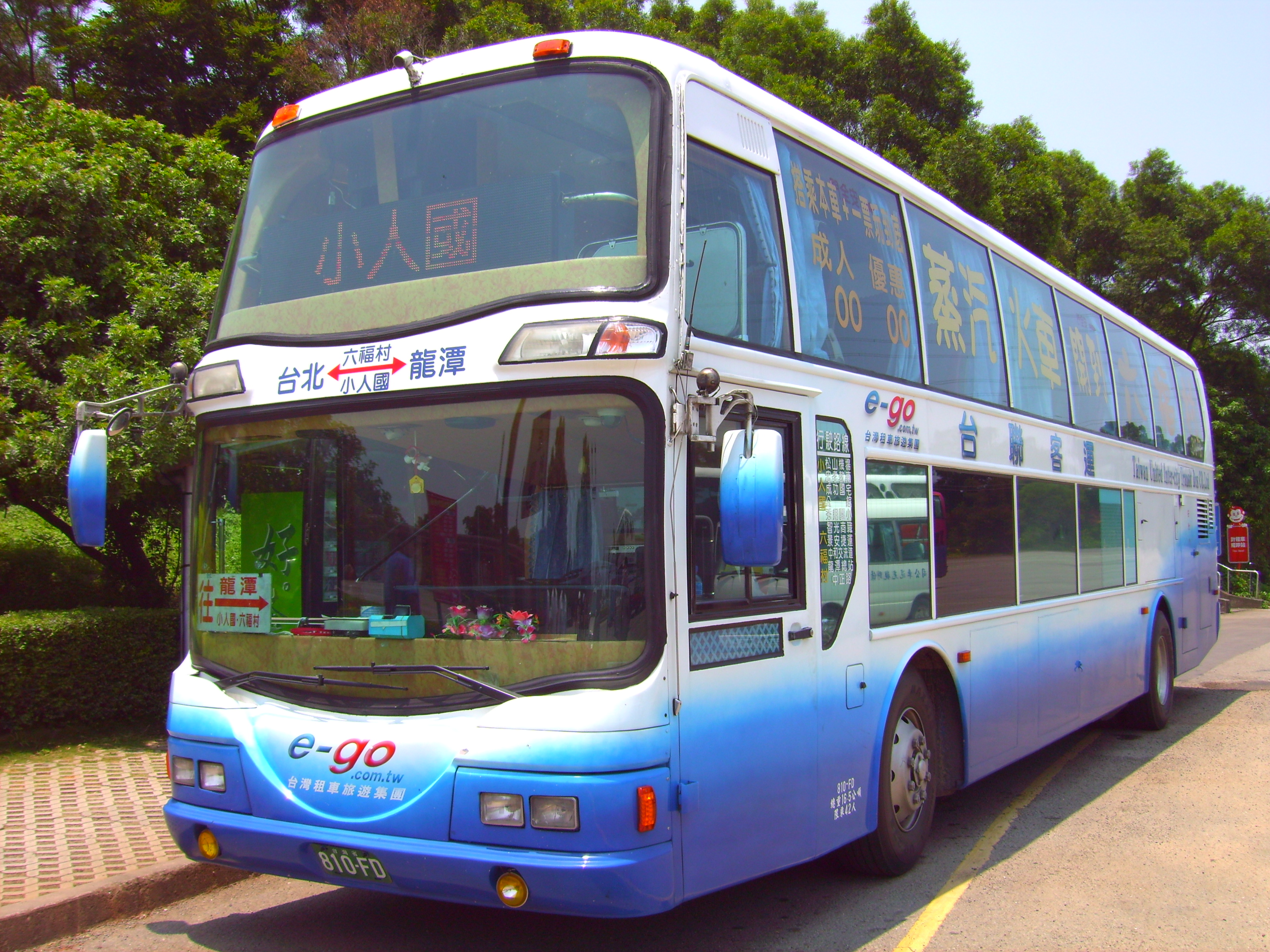 Taiwan United Inter-City Transit Bus Co., Ltd. Mitsubishi FUSO RP517PL of "Taipei - Leofoo Village" freeway bus is bought from Dragon Bus Co., Ltd.